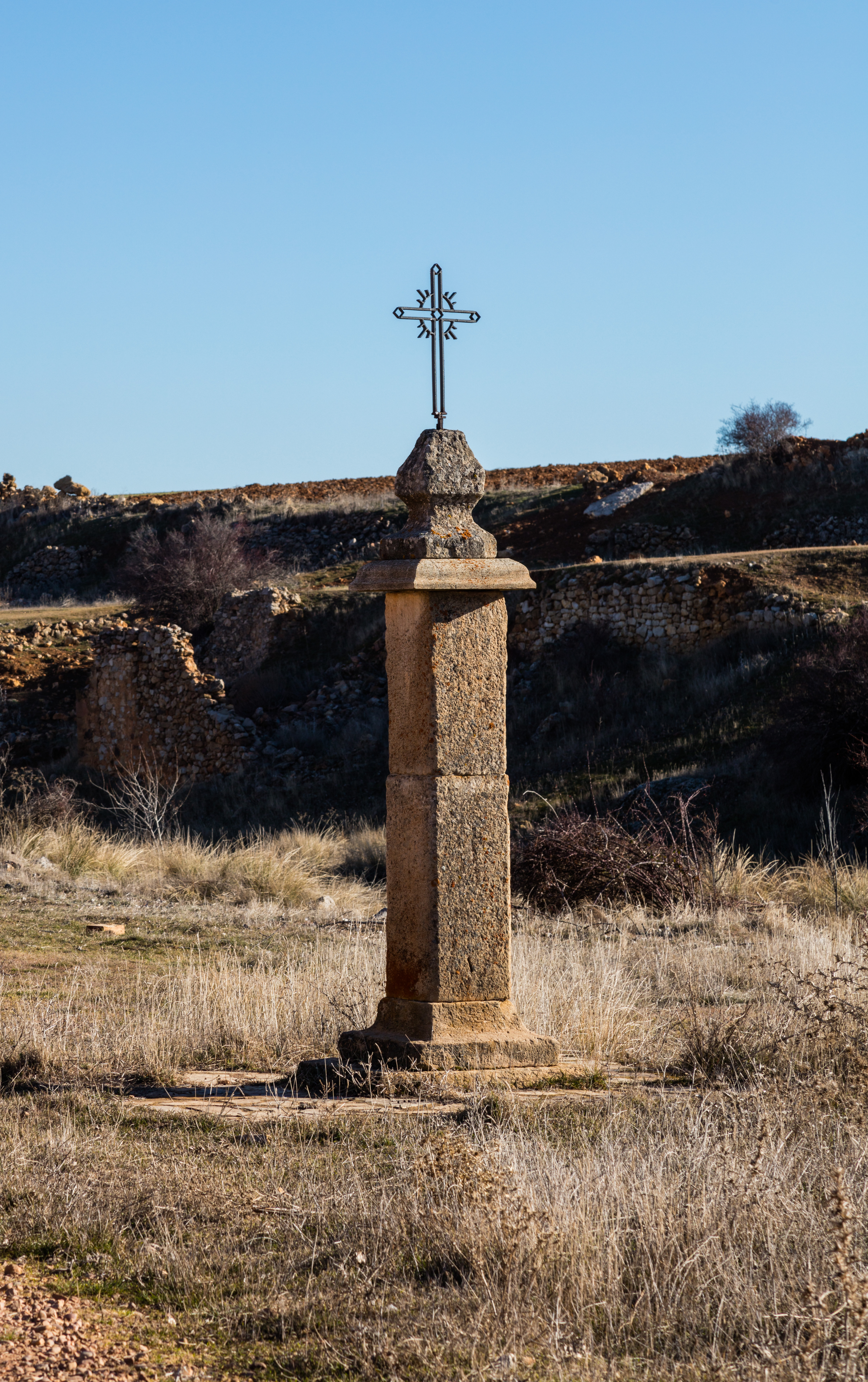 Wayside cross, Campillo de Dueñas, Guadalajara, Spain